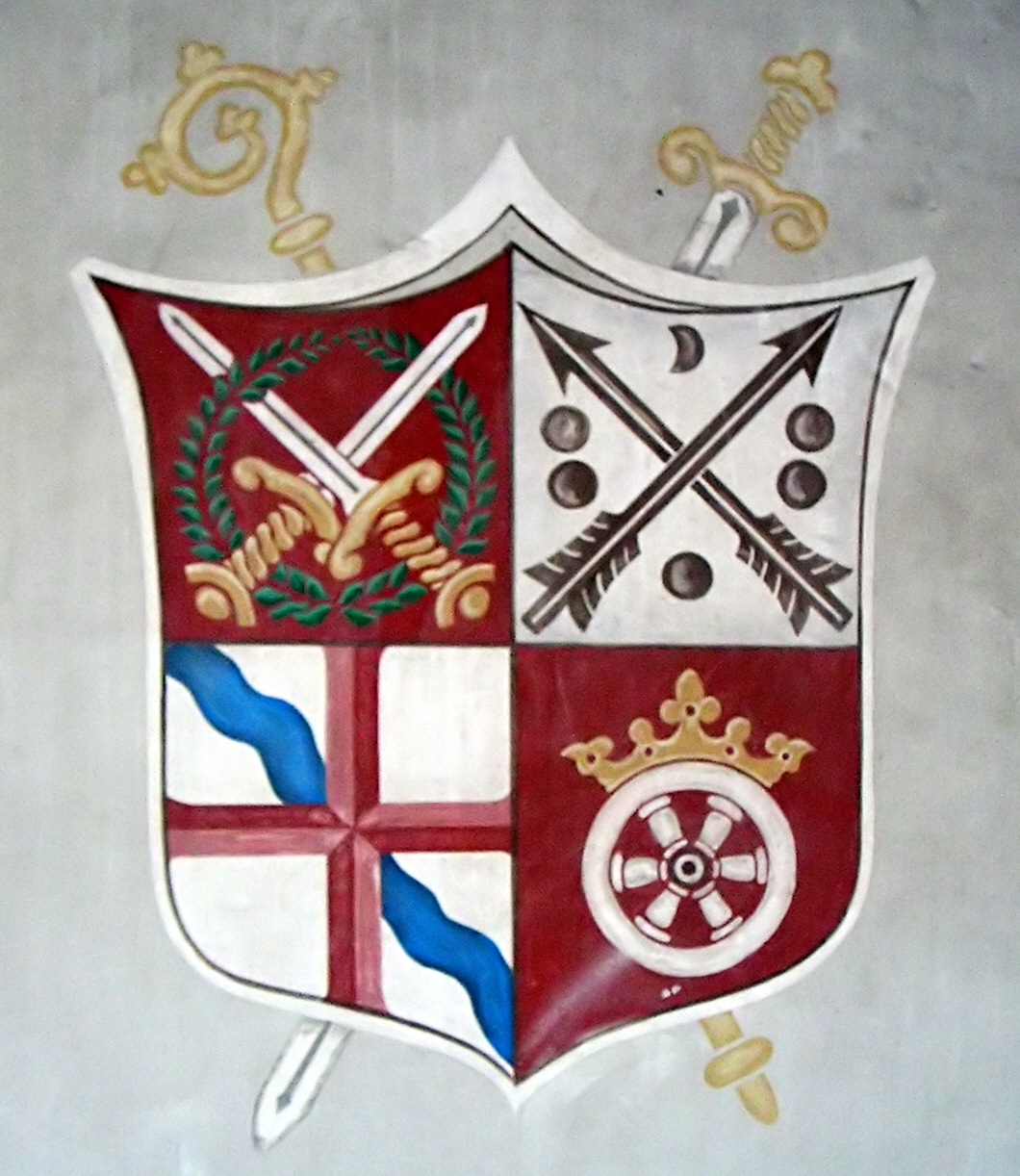 Coats of arms of the former abbey of Essen.